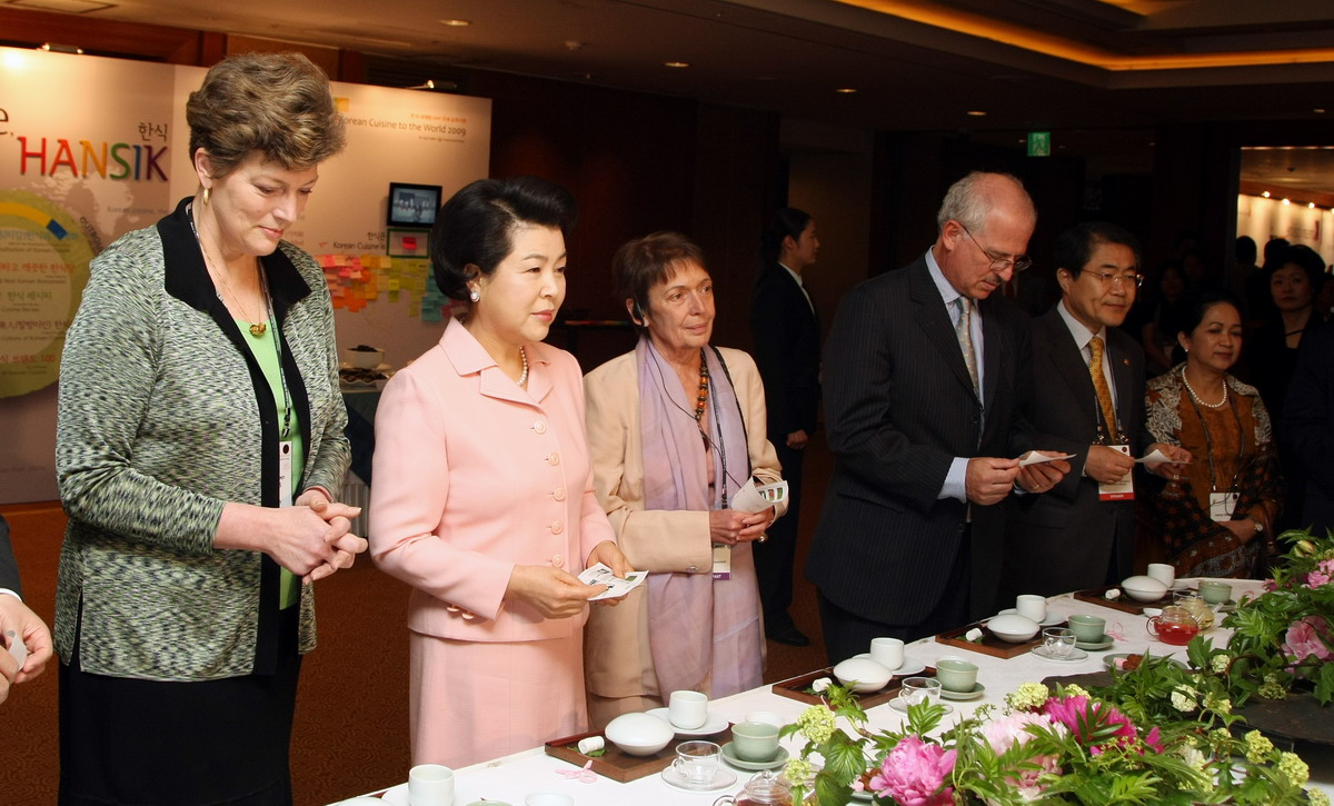 About 300 key officials, CEOs and food experts joined the event, including First Lady Kim Yoon-ok. The symposium highlighted three key themes – world food trends and Hansik (Korean food) positioning, case studies of successful international foods, and Hansik's globalization strategy.